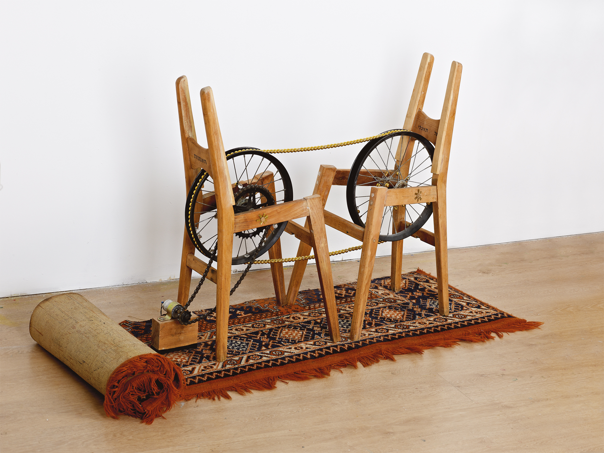 Talking Heads, chairs parts, bicycle wheels, beads, piece of carpet, engine 55×130×82 c"m, photo: Avi Amsalem